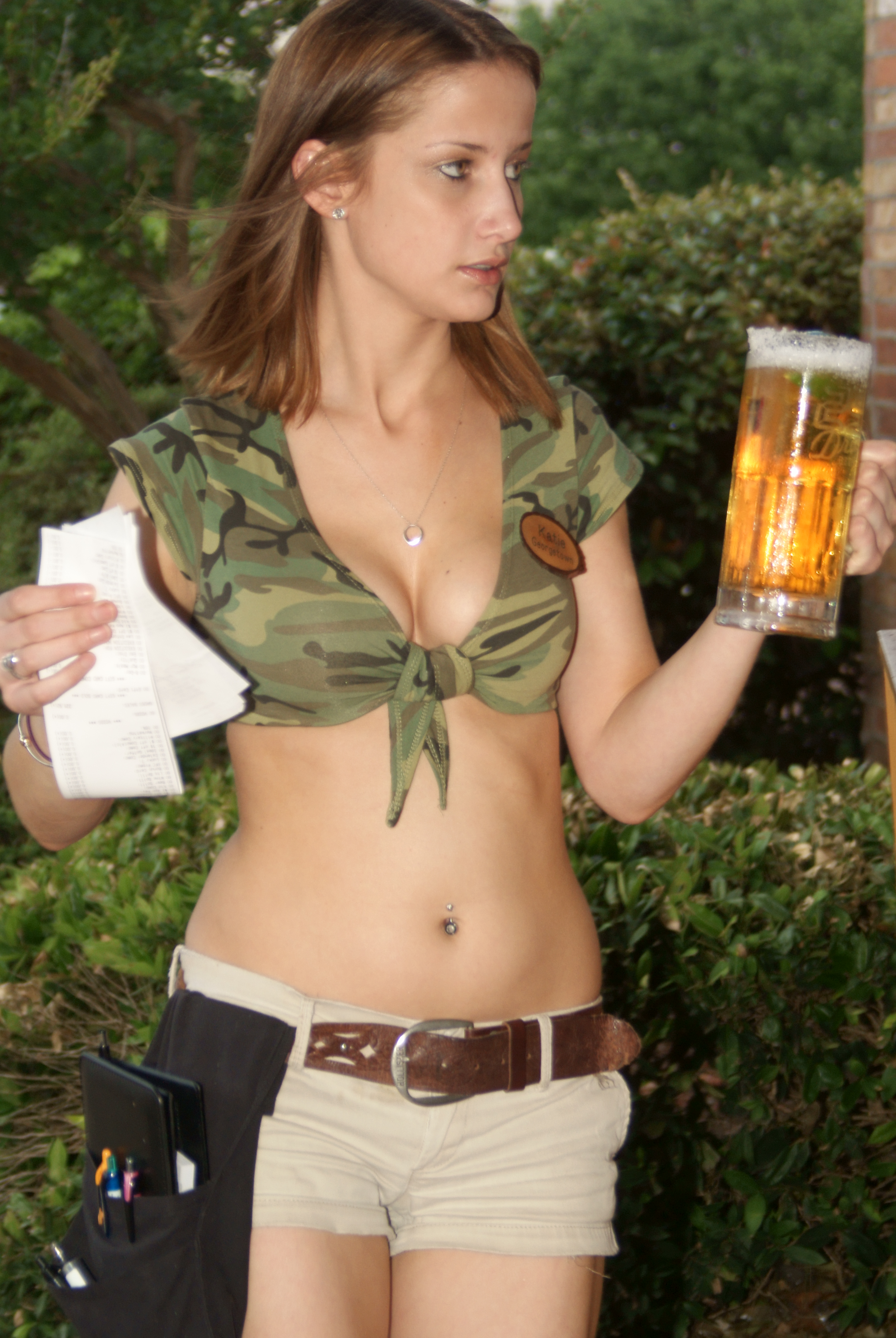 A waitress brings a glass of beer.